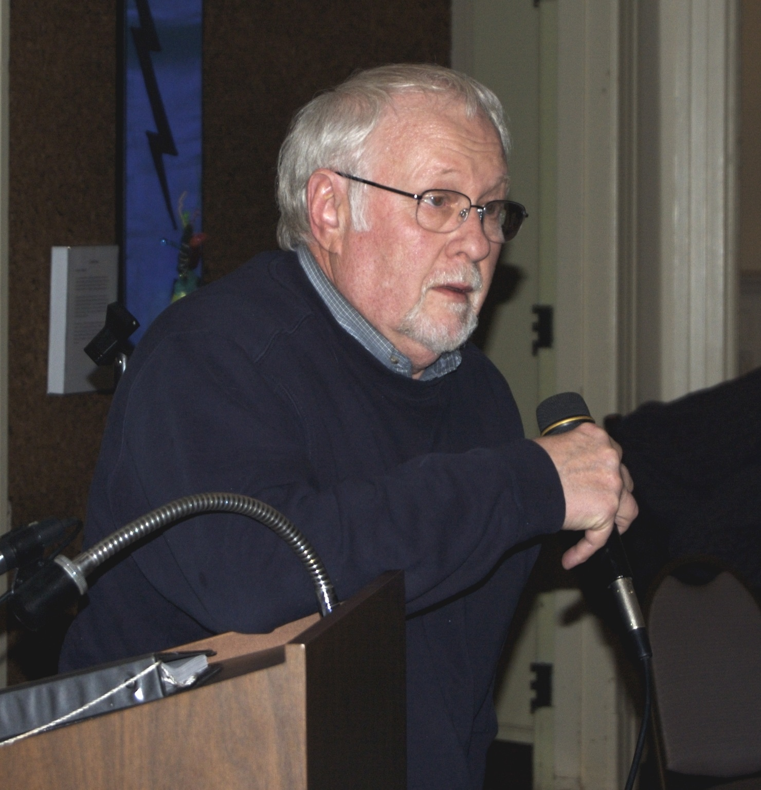 Minnesota State Representative Bill Hilty